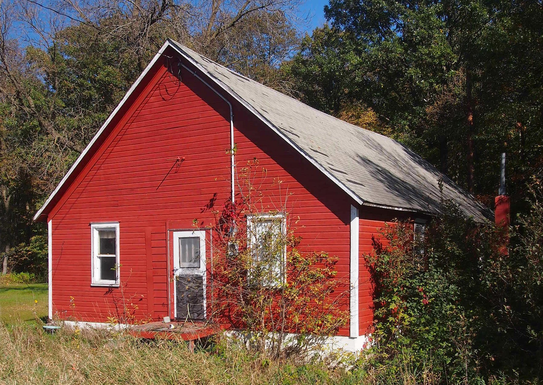 Germania Hall, 40430 County Highway 11, Germania Township, Minnesota, USA. Viewed from the southwest.